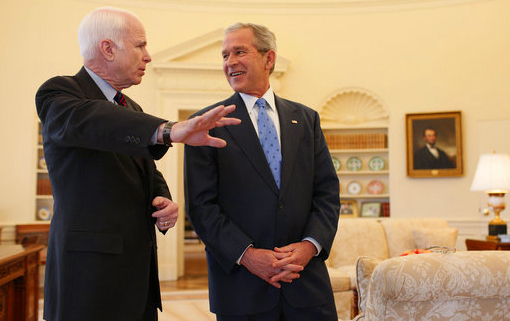 Senator John McCain and President George W. Bush in the Oval Office.